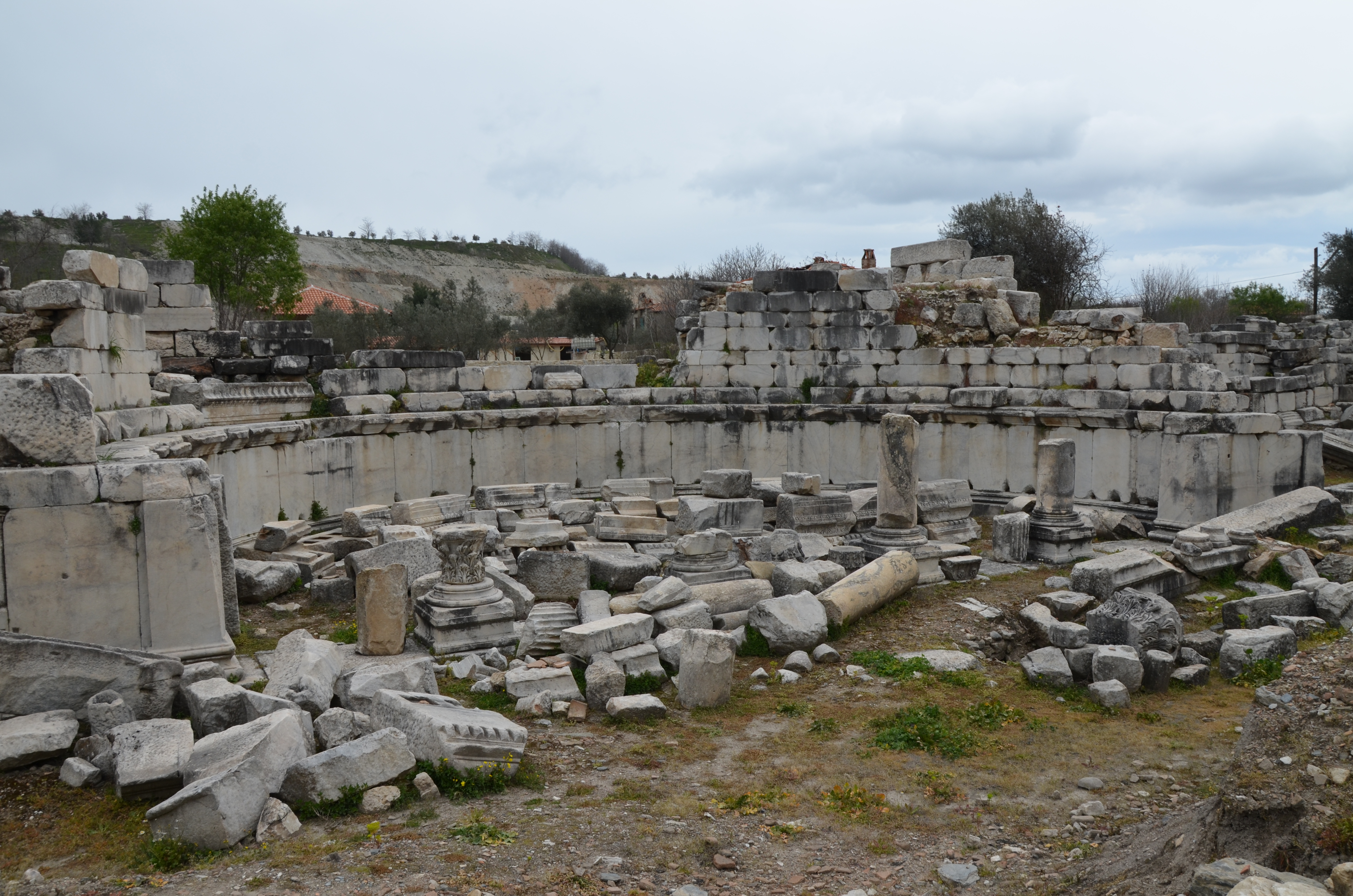 The ruins of the impressive Gymnasium, built in the second quarter of the 2nd century BC to the west end of the city, Stratonicea Caria, Turkey